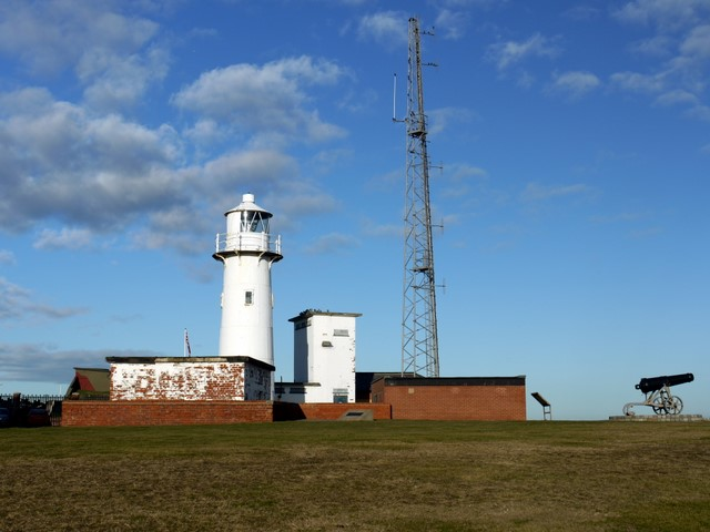 The Heugh Lighthouse, Hartlepool Headland. There have been three lighthouses on the cliff top at Hartlepool. The first stood from 1846 - 1915 and was probably the first successful gas-lit lighthouse in the world. It was taken down during the First World War because it stood in the way of the guns at Heugh Battery. It was replaced by a temporary light on the nearby Town Moor, which was used until 1927 when the current lighthouse 655363 was built The cannon can be seen on the right 1607919